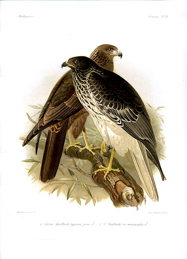 Madagascar Harrier (Circus macrosceles), lithograph by John Gerrard Keulemans in Histoire Naturelle des Oixeaux de Madagascar, Paris, Imprimerie Nationale, 1876–85.